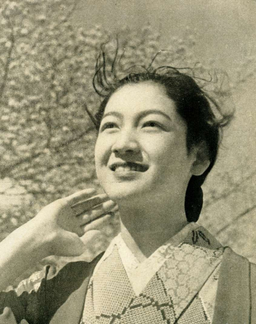 Setsuko Hara(1938)